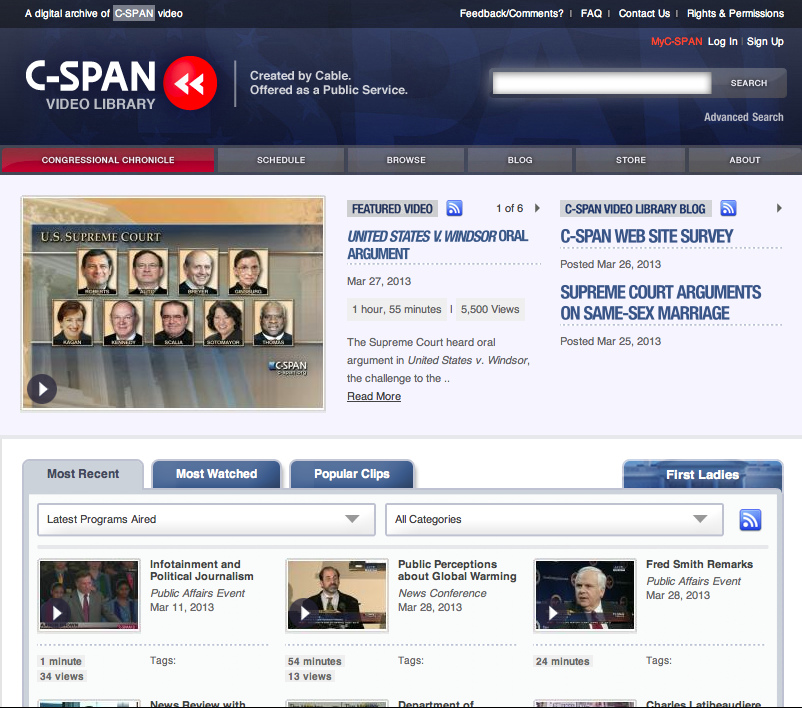 Screen shot of the home page of the C-SPAN Video Library.